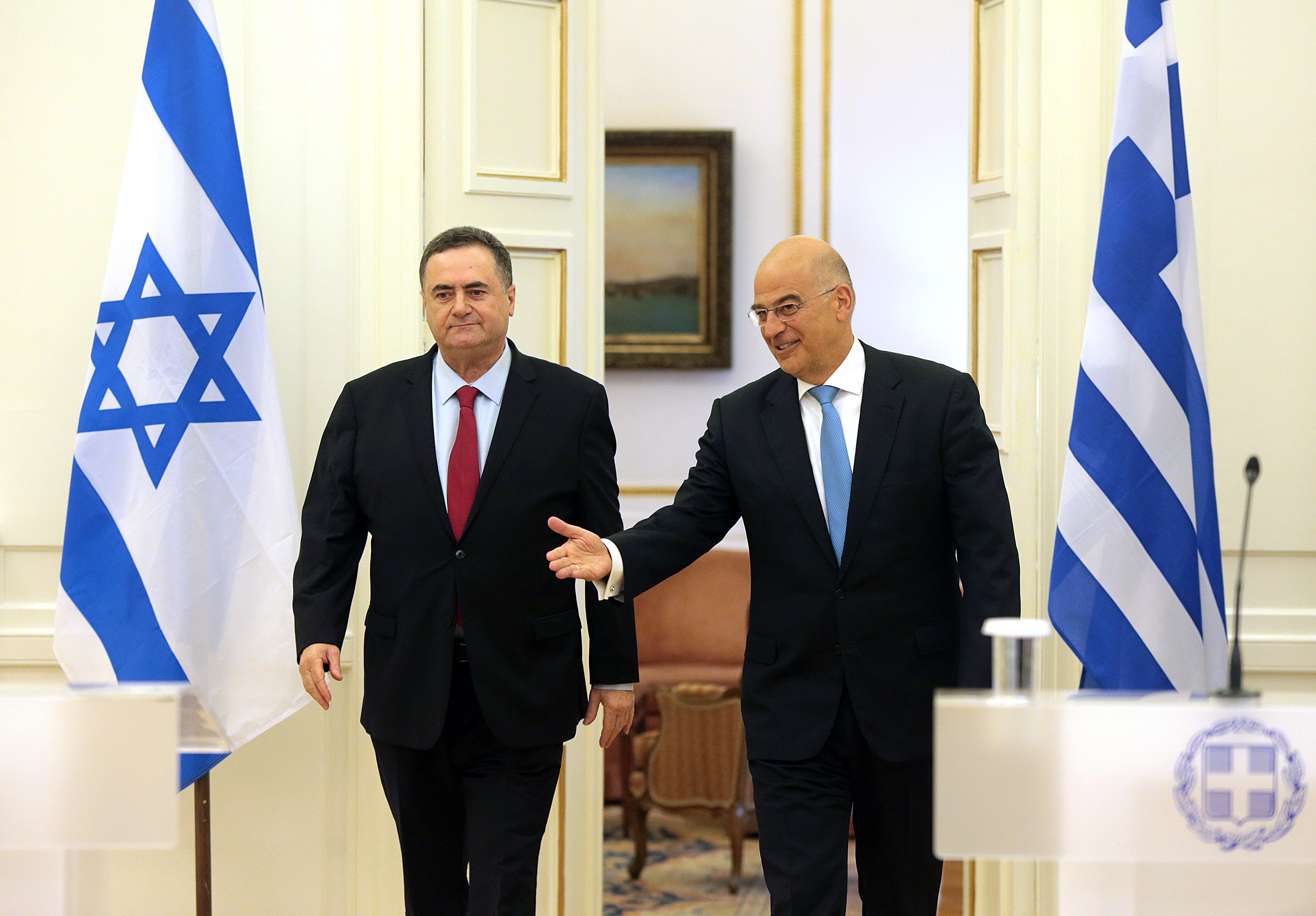 Foreign Minister Nikos Dendias meeting with the Israeli Foreign Minister, Israel Katz (Athens, 31.10.2019).